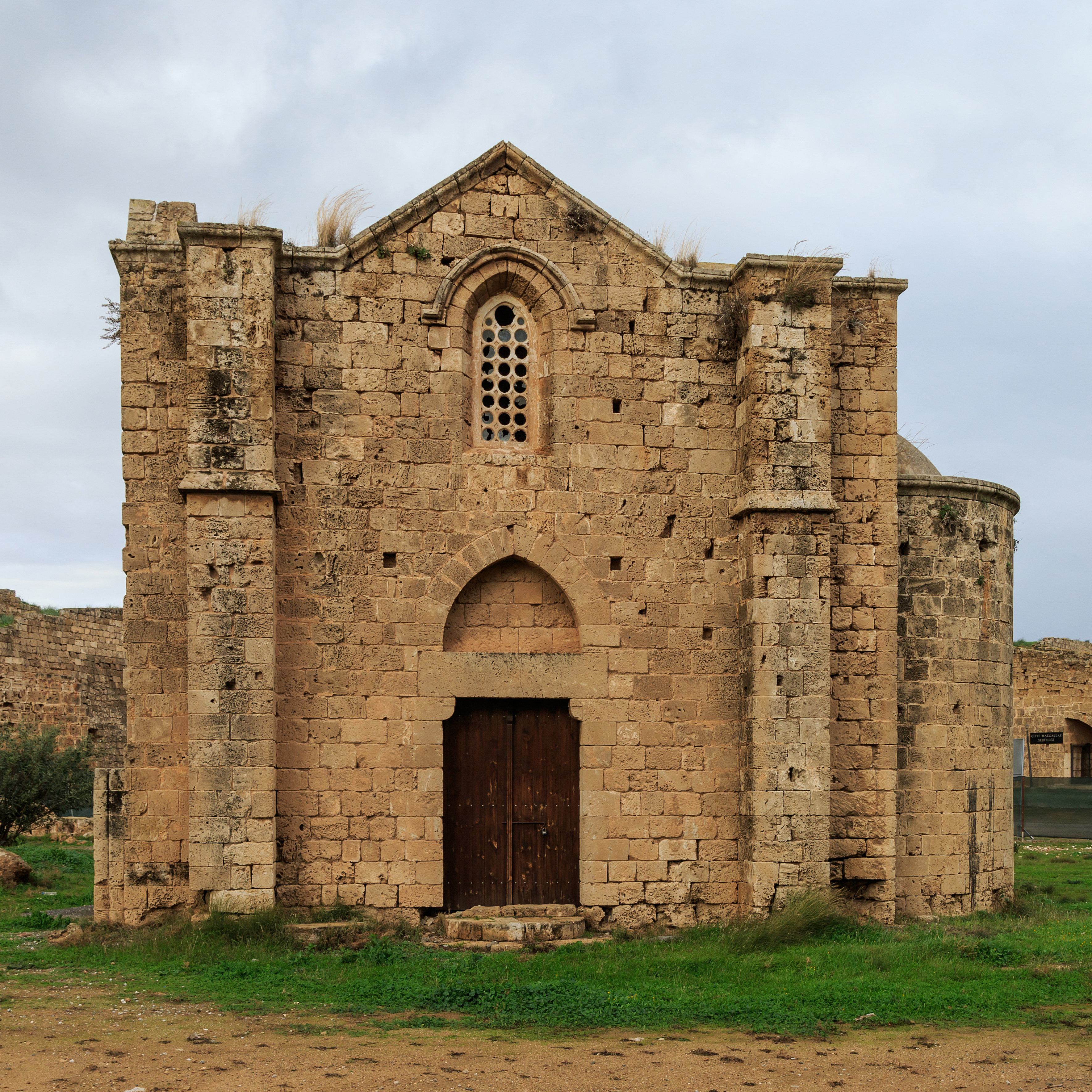 Ruin of Armenian Church in Famagusta, Cyprus